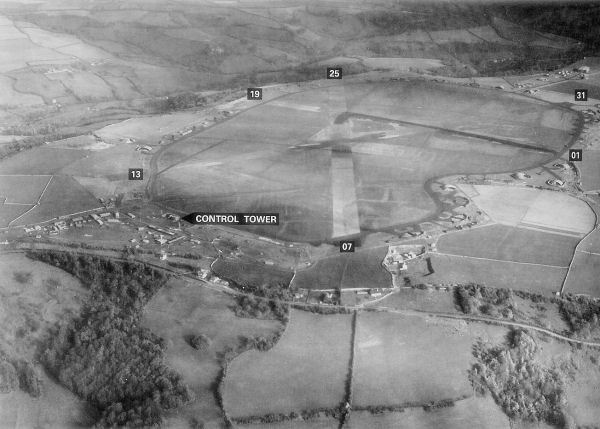 Oblique aerial photograph of Charmy Down Airfield, England.